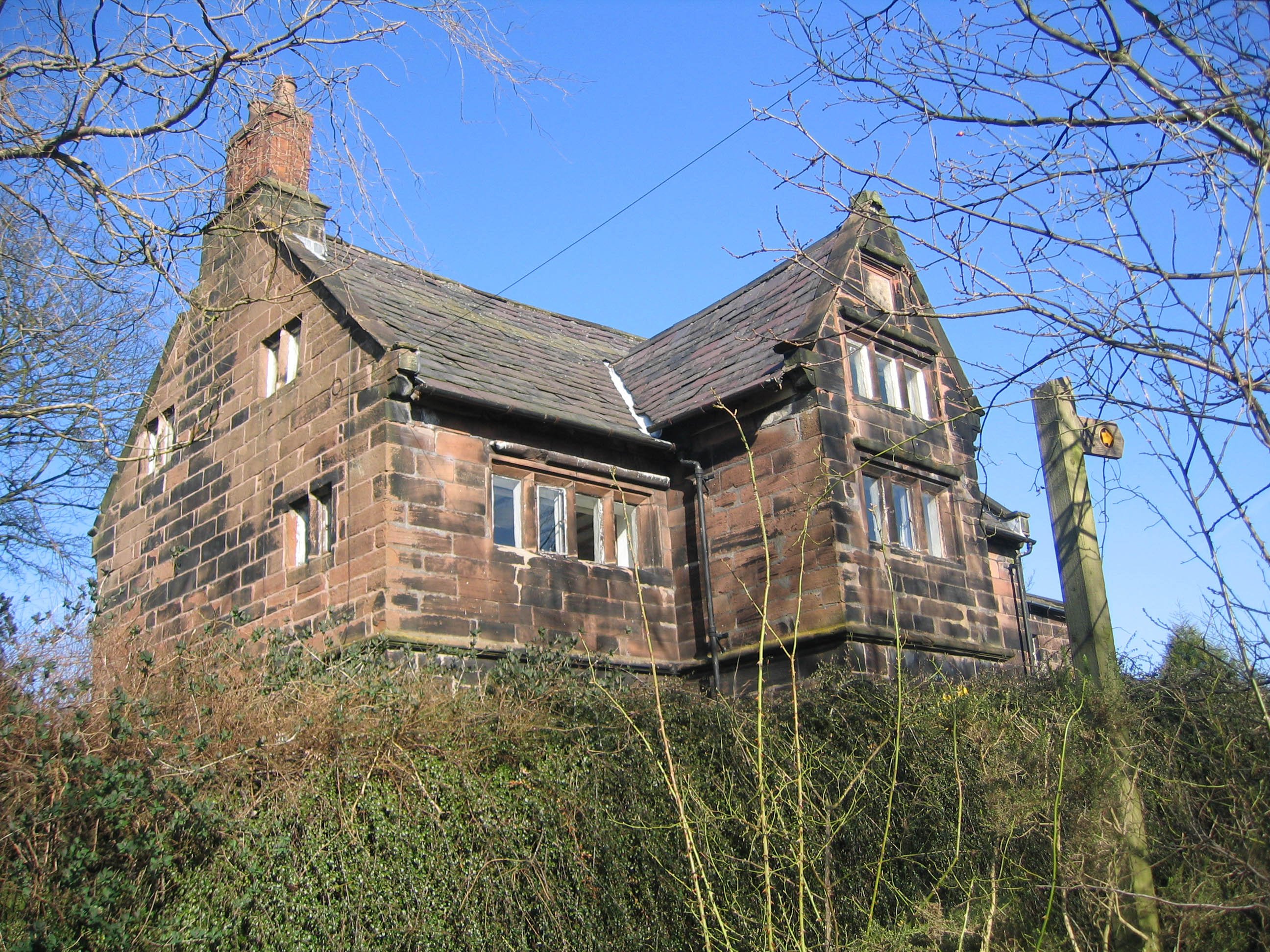 Photograph taken by me on 14 March 2007.